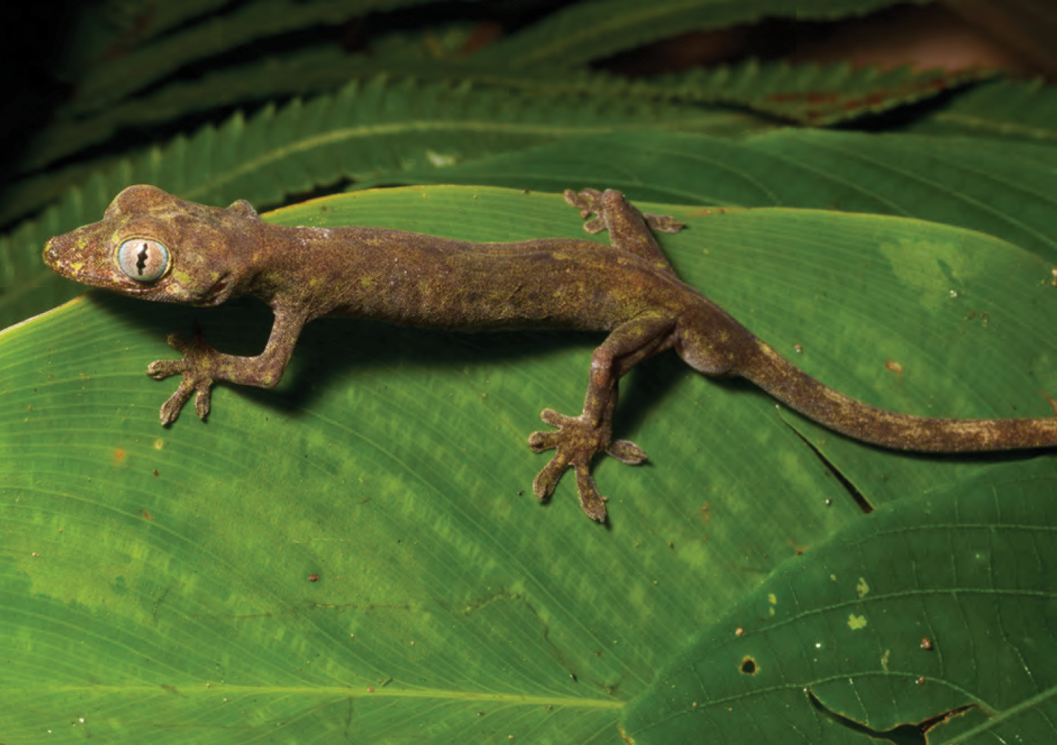 Pseudogekko compressicorpus (KU 330058) from 850 m on Mt. Cagua. Photo: RMB.